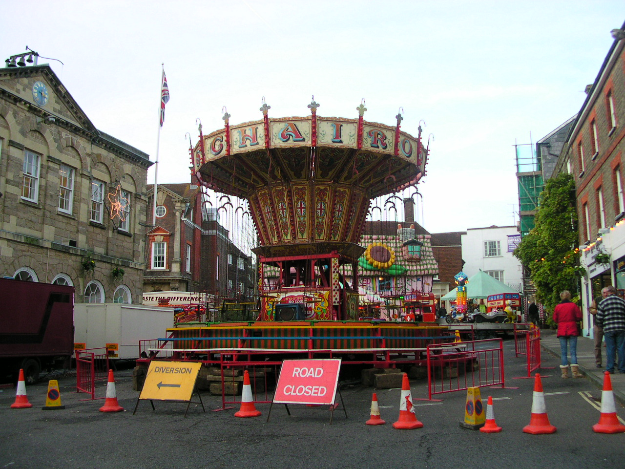 Petworth Fair, Petworth, West Sussex, England. 20 November 2008.